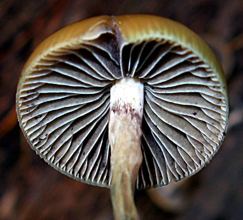 Closeup of the gills of the psychedelic mushroom Psilocybe aztecorum R.Heim. Specimen found in Nevado de Toluca, Mexico, Mexico. "Notes: 11,420 feet elevation." See Mushroom Observer page for more extensive collection notes.